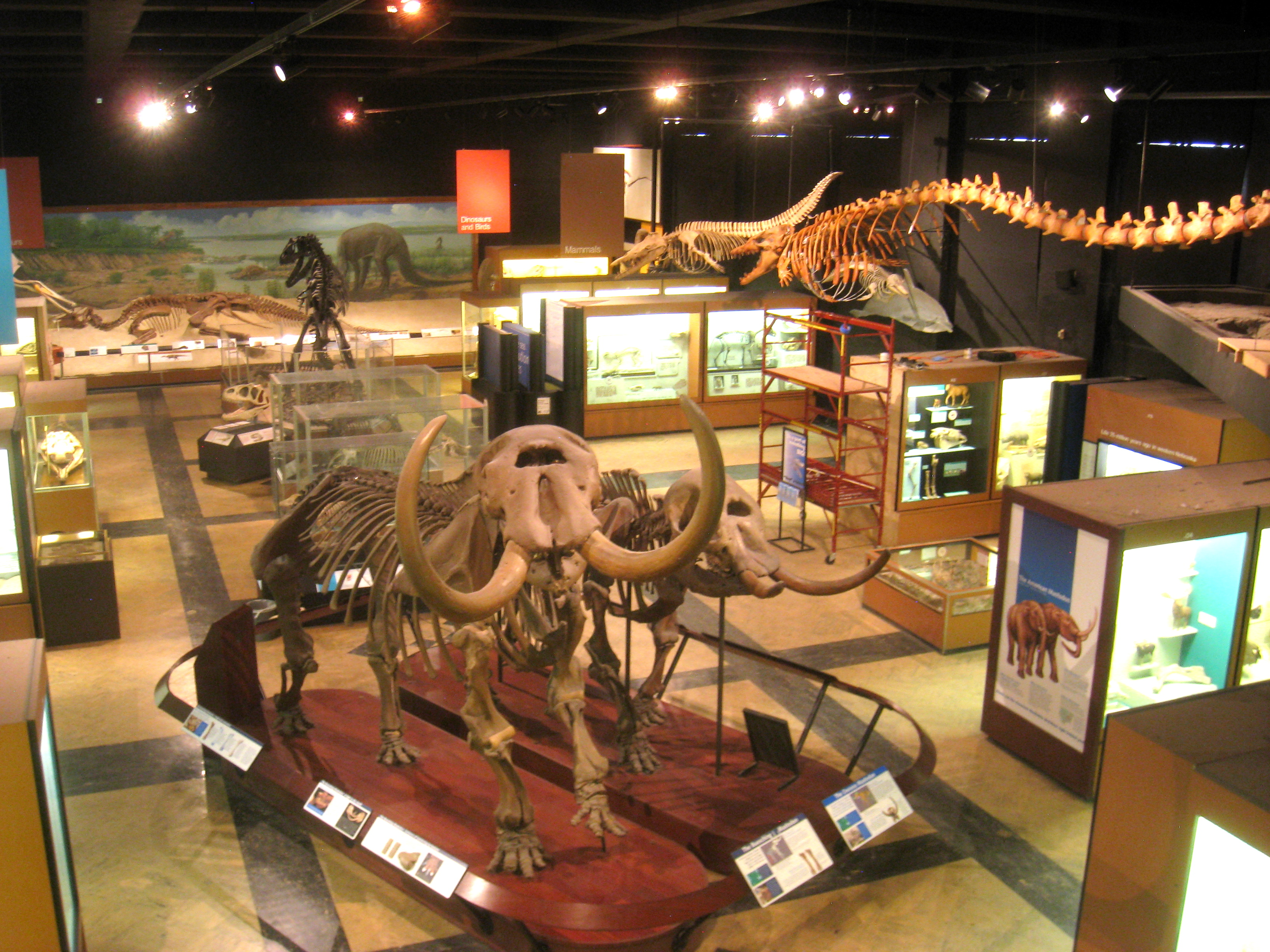 Exhibit Museum of Natural History, University of Michigan, 1109 Geddes Avenue, Ann Arbor, Michigan, USA.